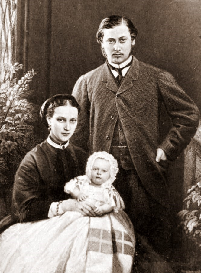 CDV of the future Edward VII as a young married man with his consort, the future Queen Alexandra, and their first born, Albert Victor.